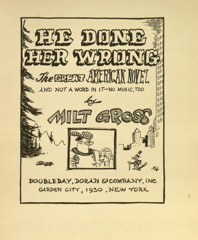 Title page from He Done Her Wrong by Milt Gross